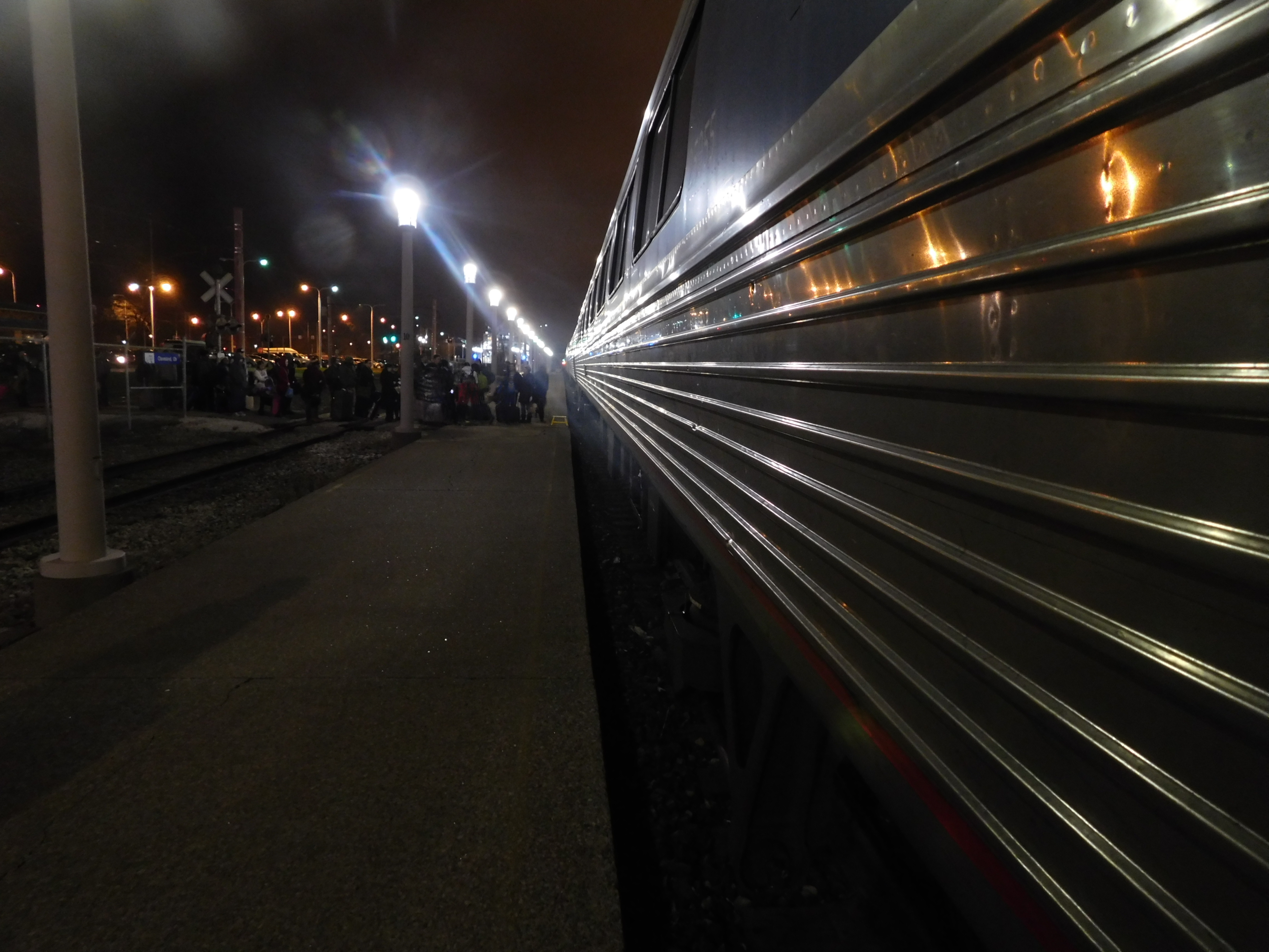 The Amtrak platform at Cleveland lakefront Station